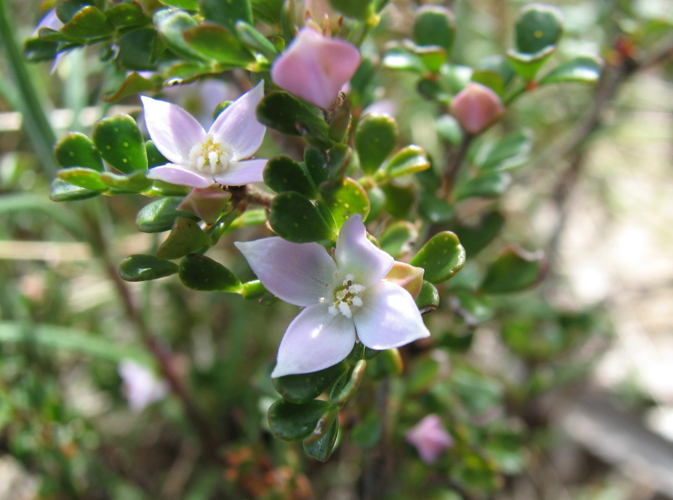 Boronia algida, Mount Buffalo National Park, Victoria, Australia